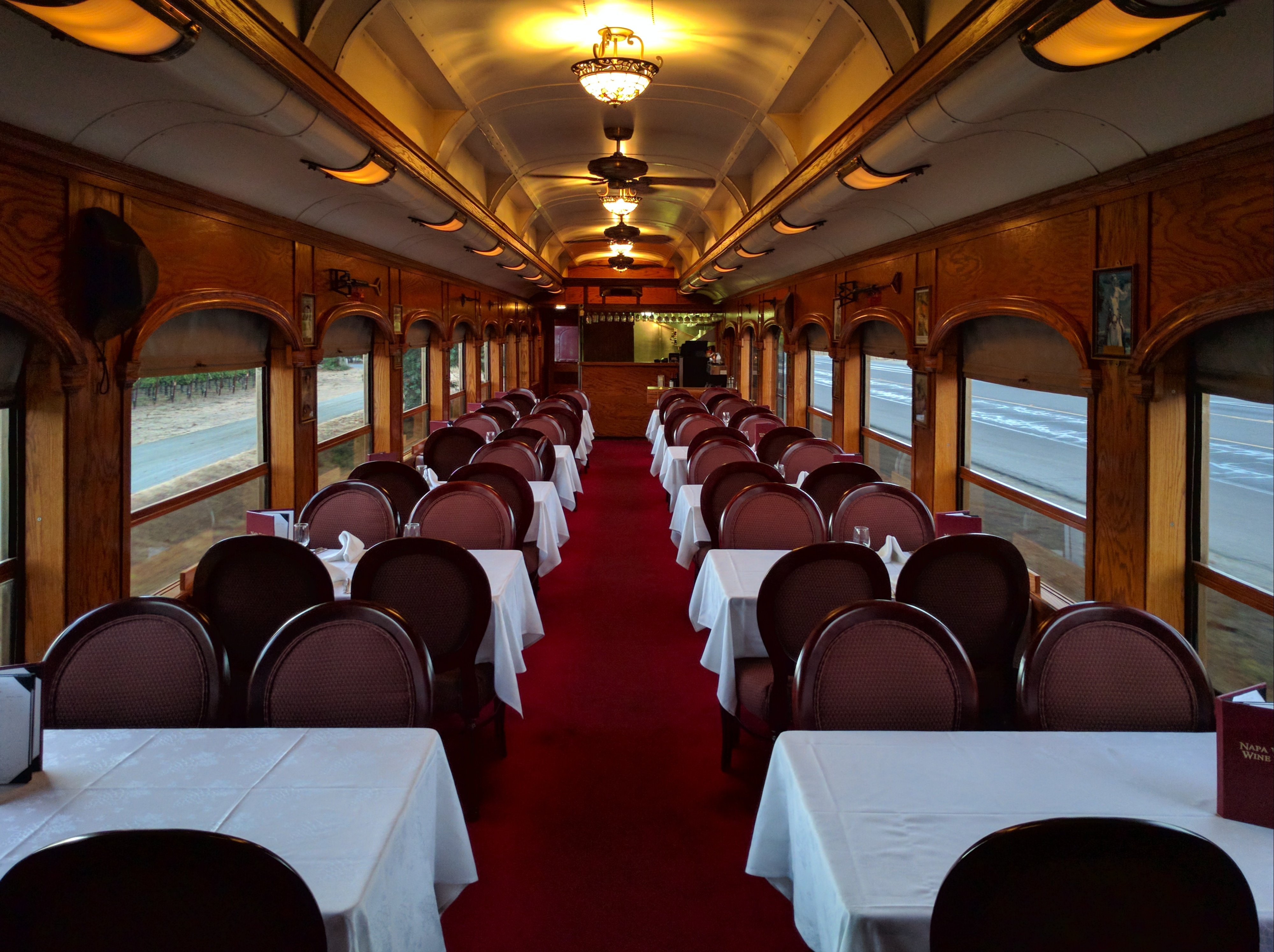 The interior of the Silverado car, a converted Pullman car from 1915, on the Napa Valley Wine Train.